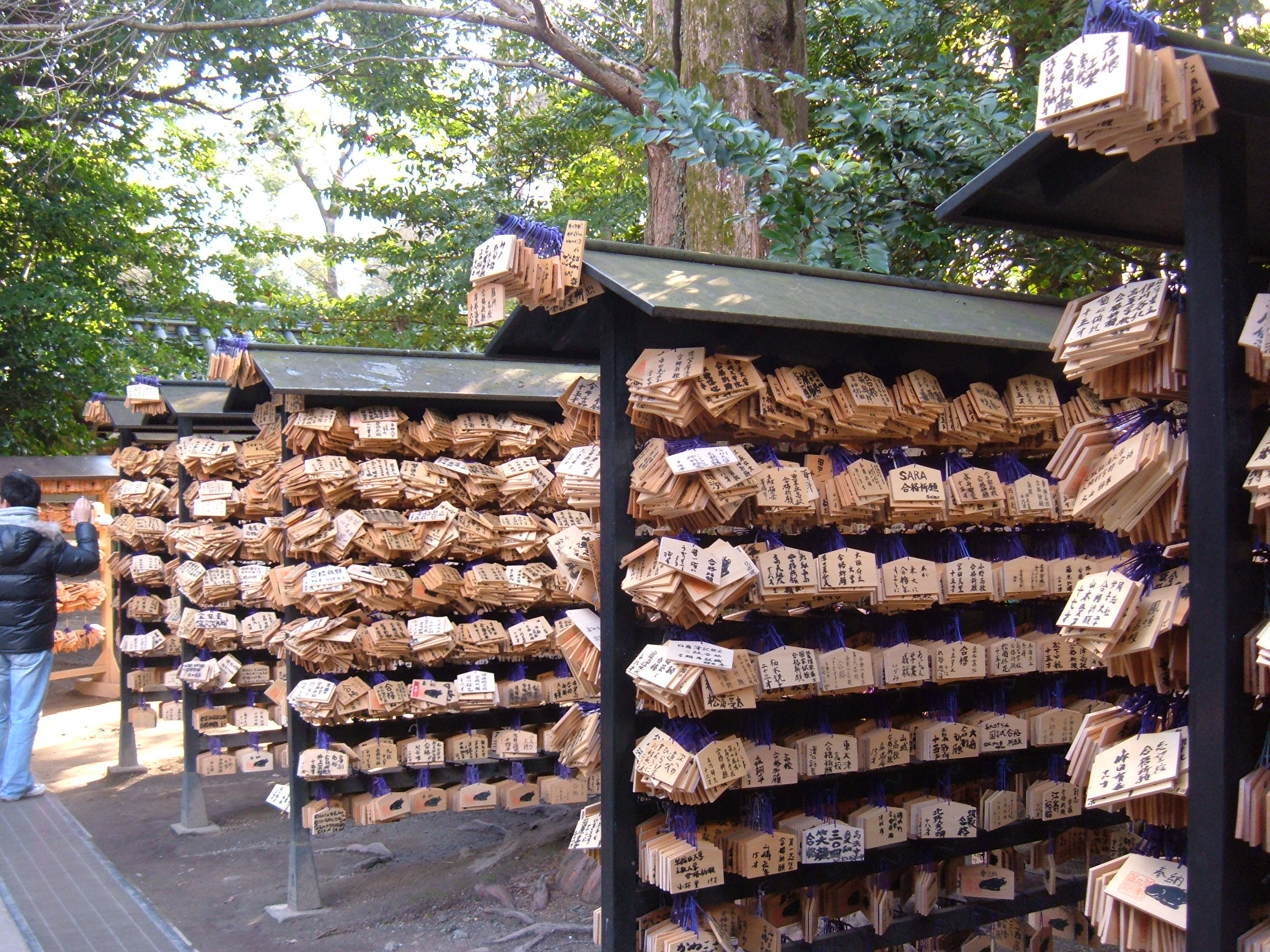 Ema in Kitano-Tenmangu, Kyoto